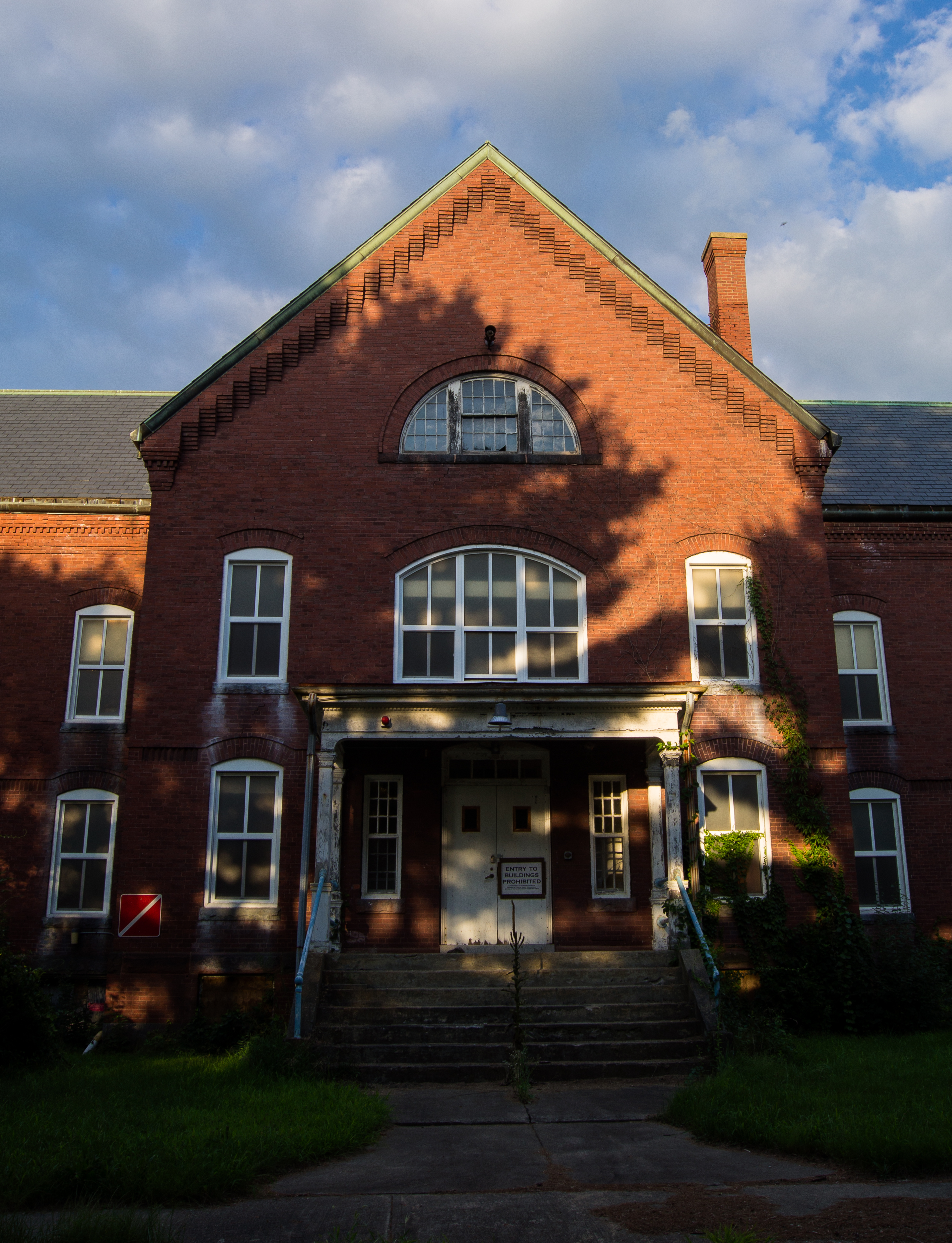 One of the old abandoned building at MSH. AIT.